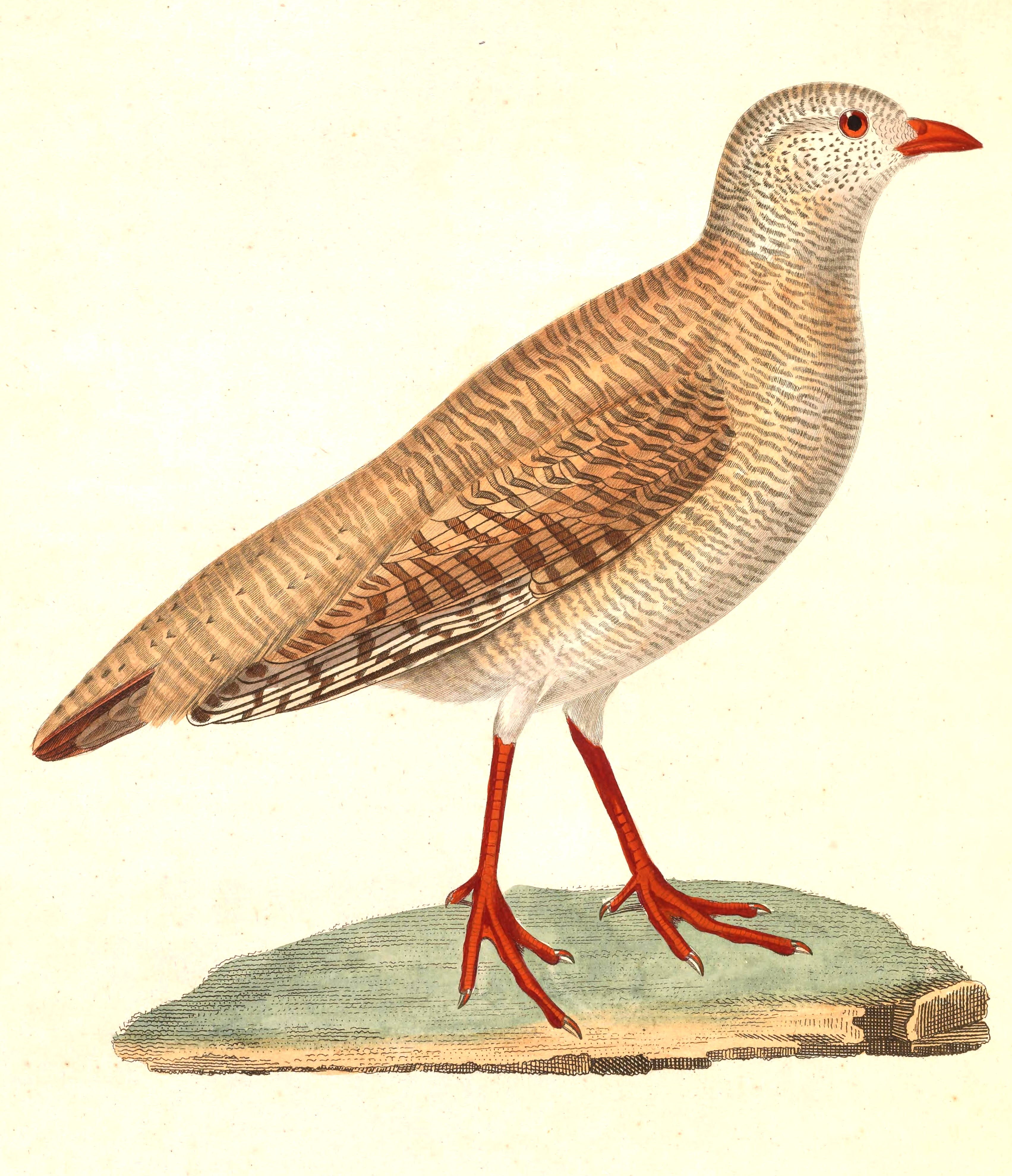 « Perdix heyi » = Ammoperdix heyi (Sand Partridge) - female